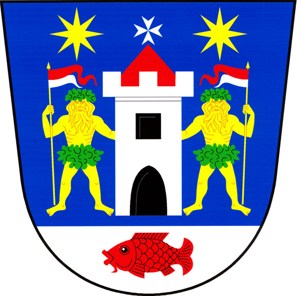 Coat of amrs of Pičín , District Příbram, Czech Republic